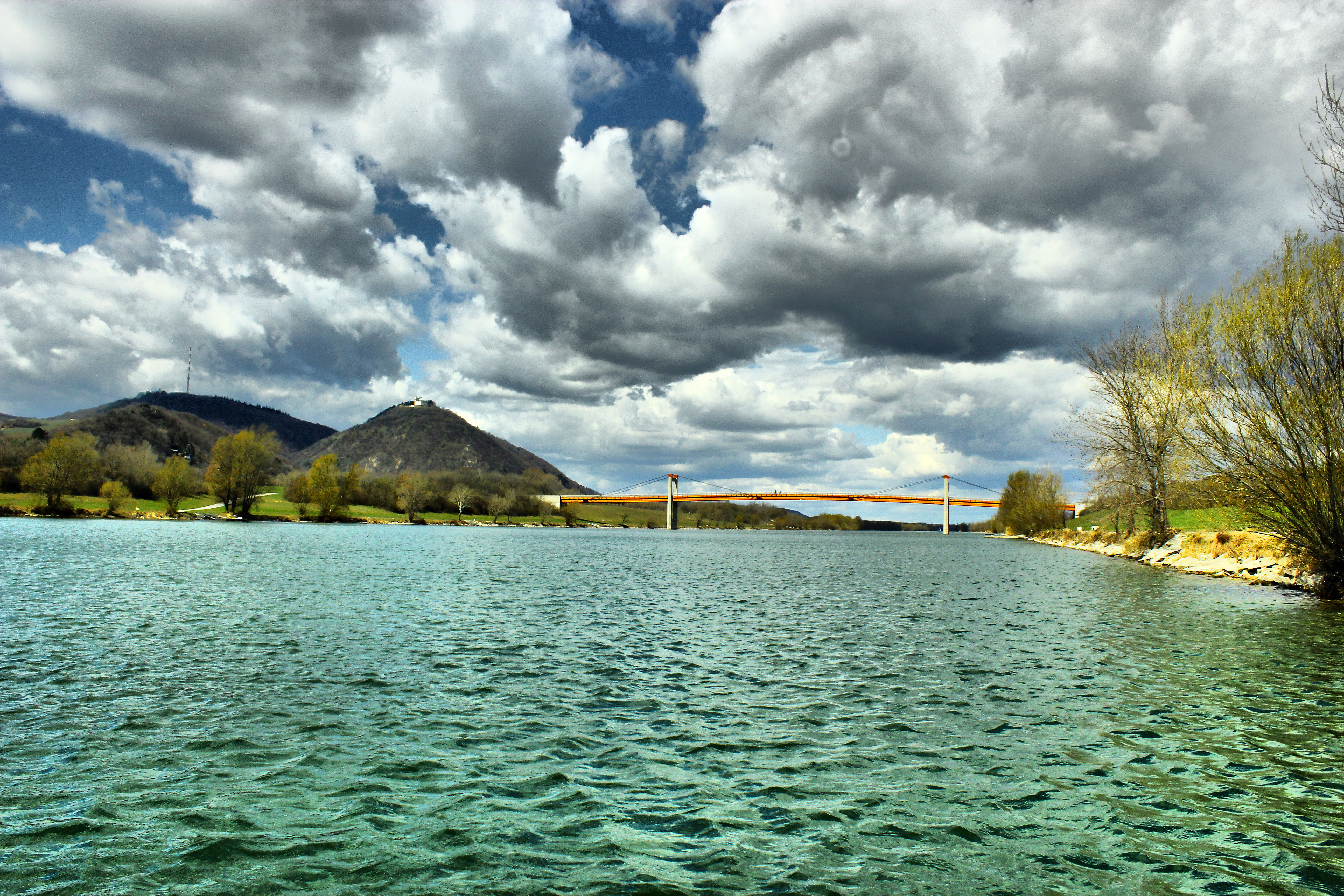 Neue Donau is a branch of the Donau which passes in the city of Vienna